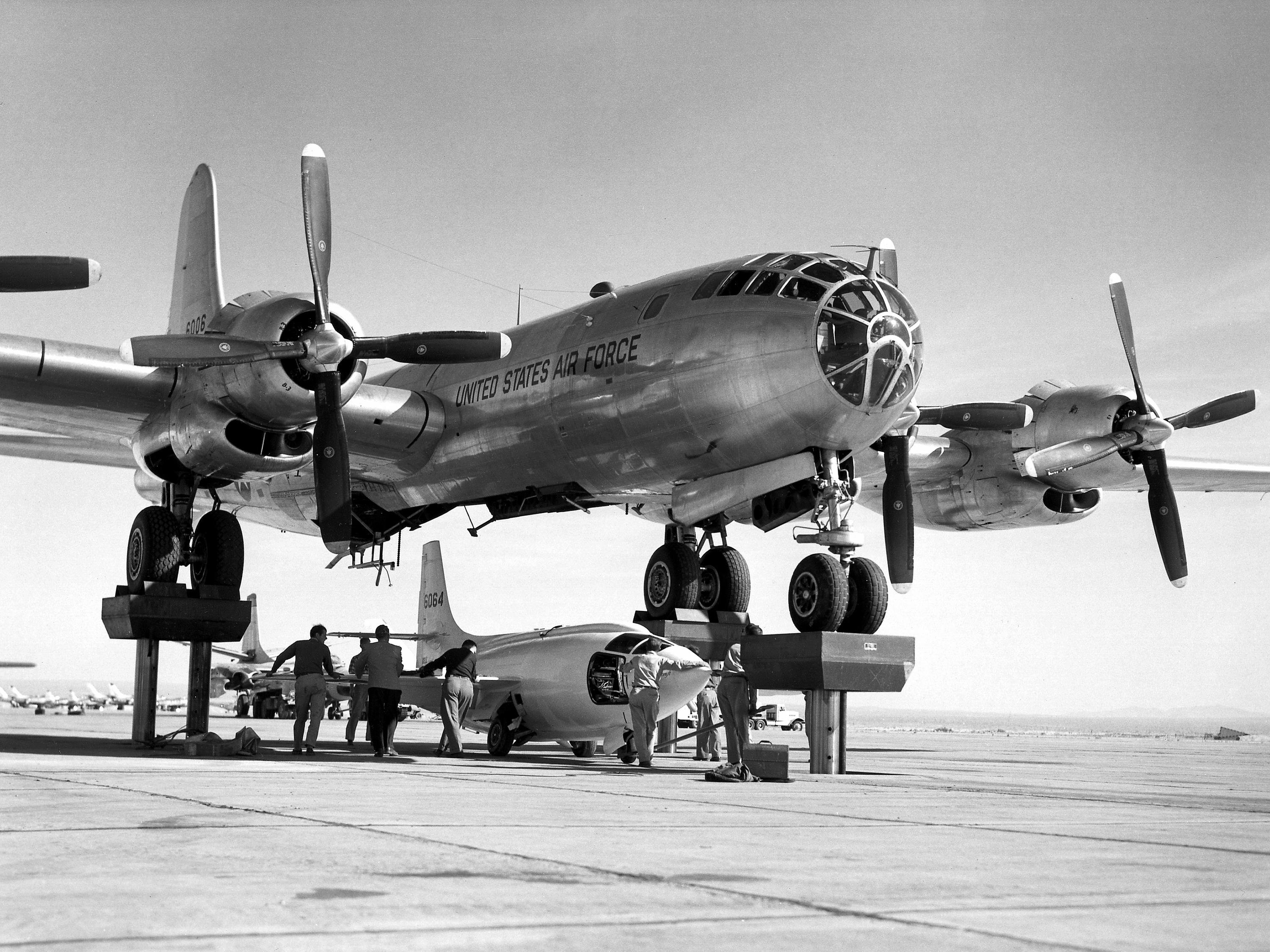 Researchplane Bell X-1 number 3 being mated with the B-50 Superfortress motherplane